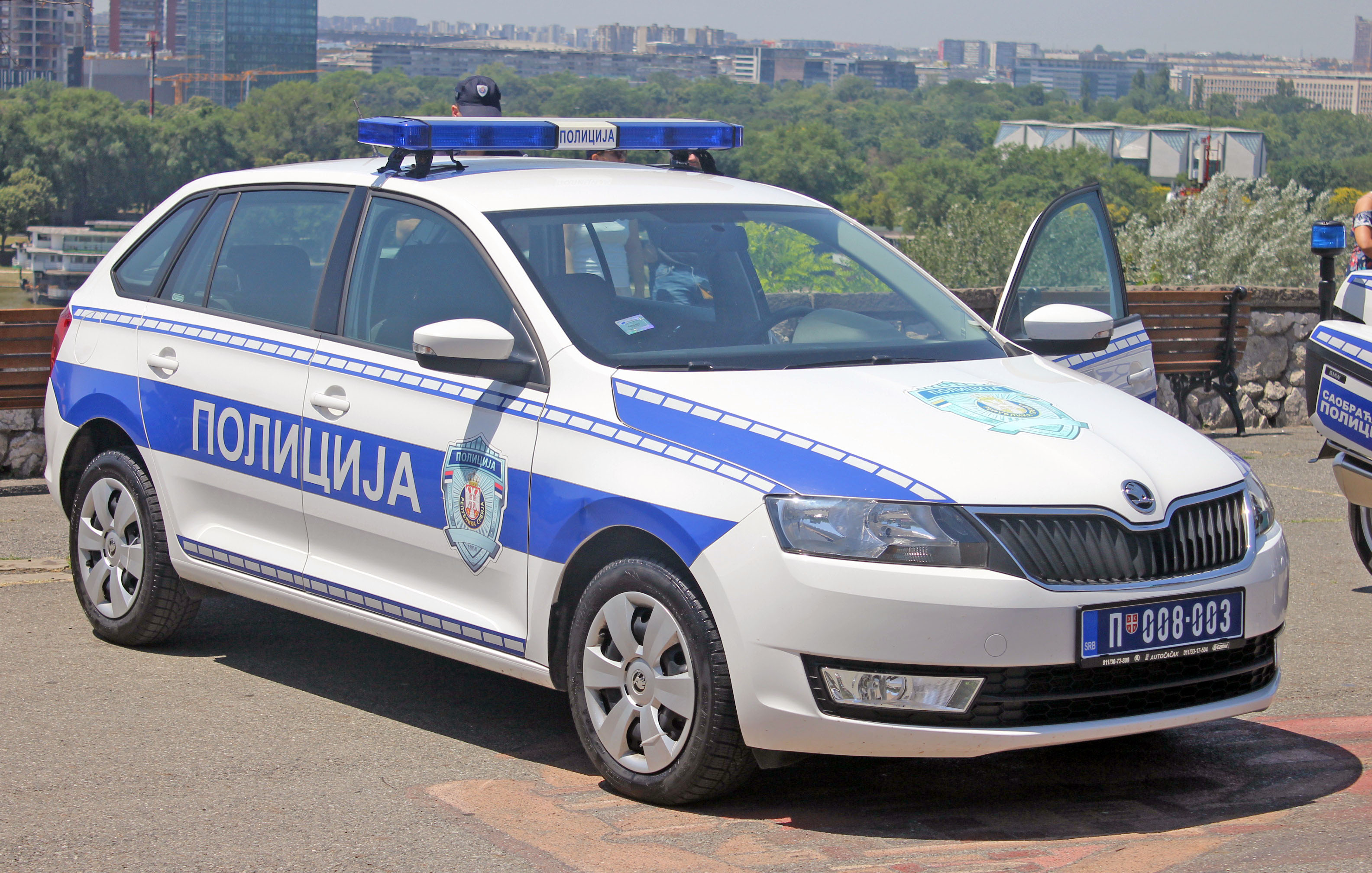 Serbian police Škoda Rapid patrol car on display at 2019 Police Day at Belgrade.